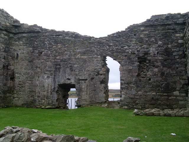 Inside Castle Sween Much of the castle has been very well preserved.